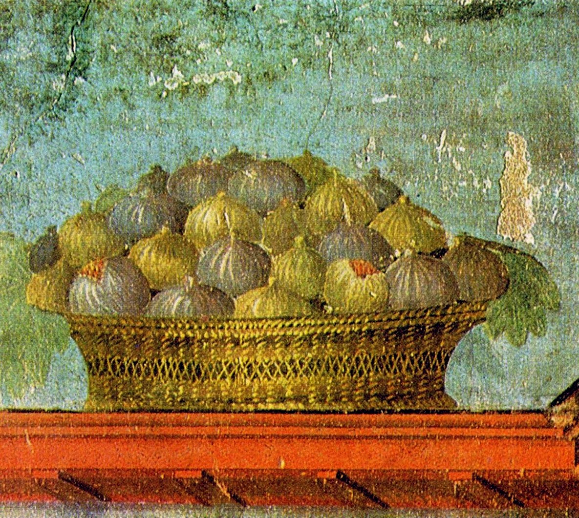 Fresco of a basket of figs at Villa Poppaea, Oplontis, Italy. Photographed c. 1979